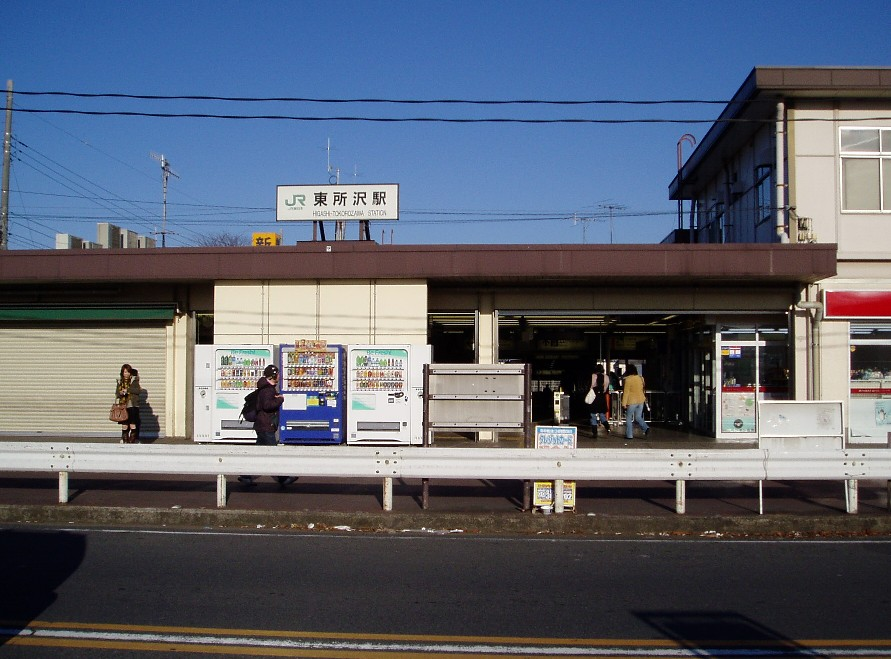 Hihashi-Tokorozawa Station on the Musashino Line in Saitama, Japan